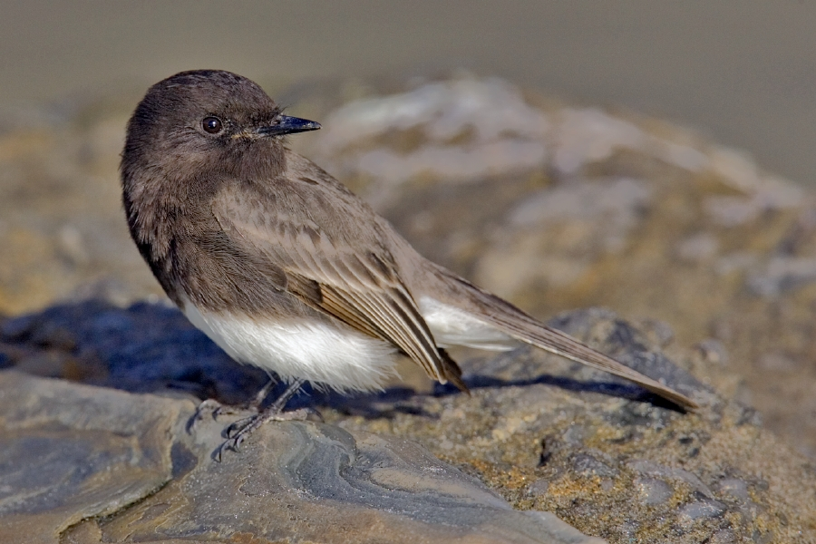 Sayornis nigricans - Black Phoebe, La Jolla Shores Beach (Near Scripp's Pier), La Jolla, California